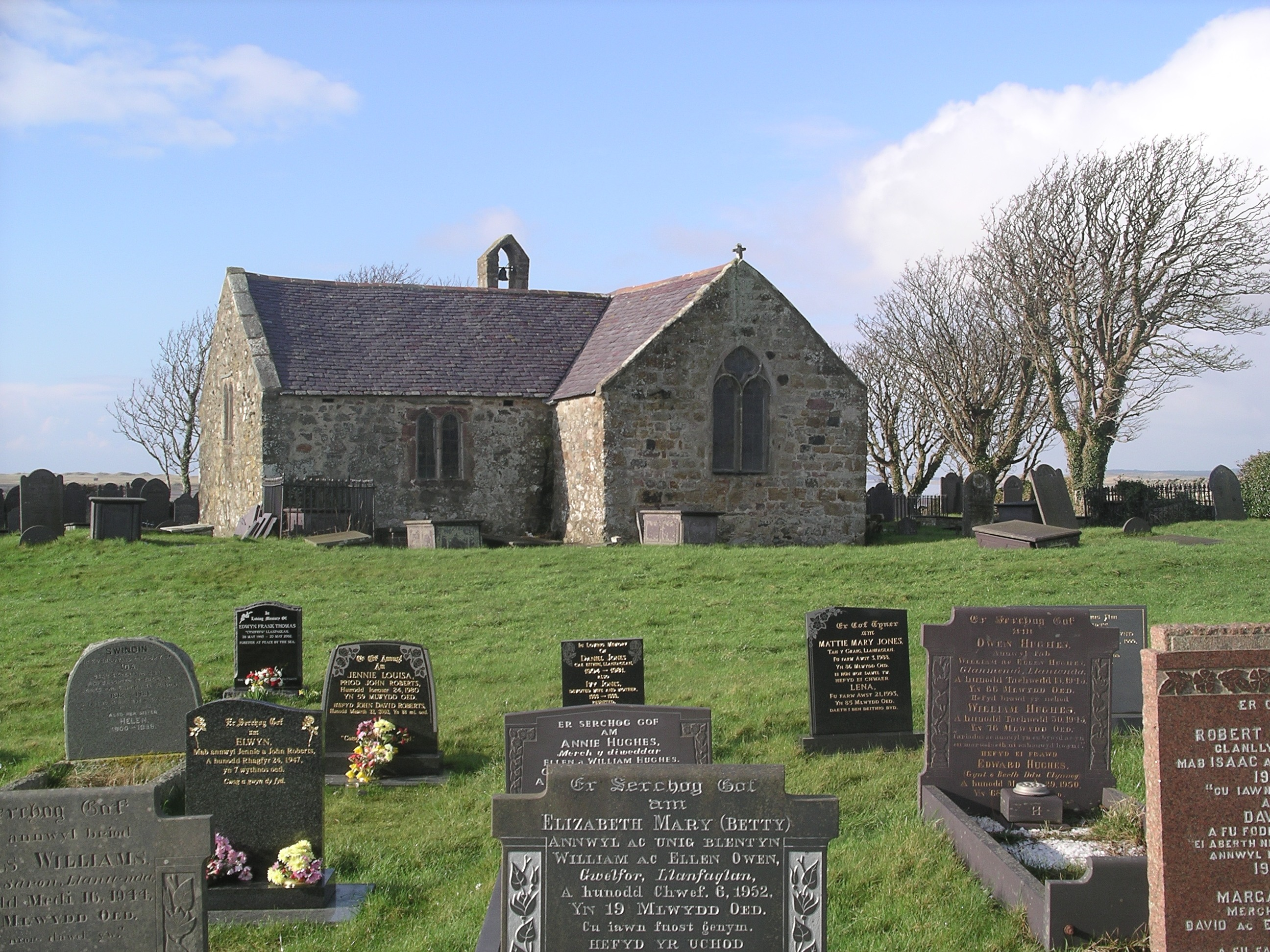 St Baglans church, Llanfaglan, near Caernarfon